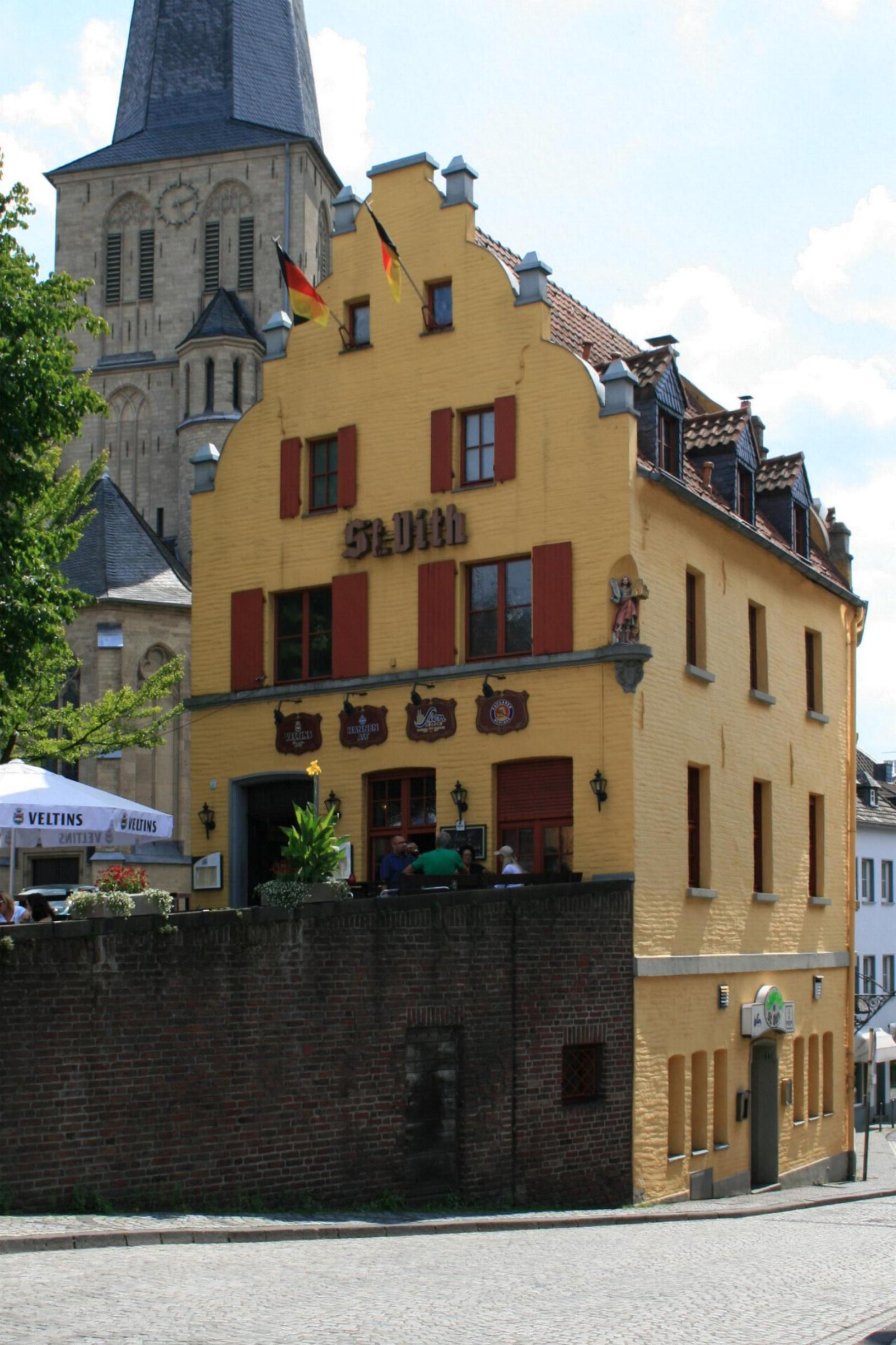 Cultural heritage monument No. A 011 in Mönchengladbach